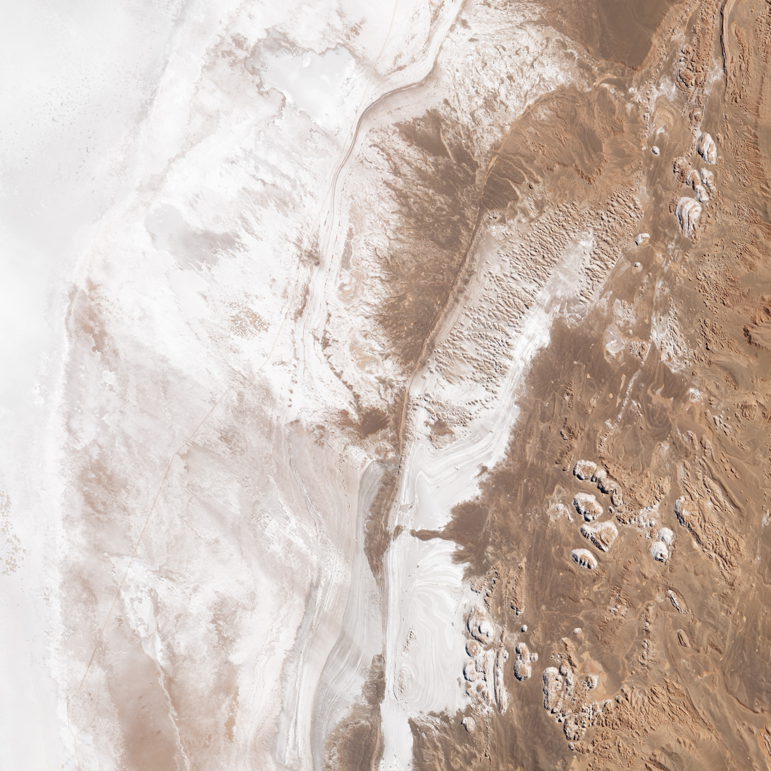 In the arid, high plateau of Argentina’s Salta province, just east of the Atacama Desert and the eastern cordillera of the Andes Mountains, dry lake beds indicate a time when the landscape was bathed in water. Today it is dry rock crusted in salt—the remnants of evaporation, baking sunlight, and fierce winds. This is the Salar de Arizaro. This image of the Arizaro salt flats was acquired on April 7, 2013, by the Advanced Land Imager on NASA’s Earth Observing-1 satellite. Thin, parallel lines cut north-south across much of the image, bathtub rings showing the positions of past shorelines when the lake still had water. In the upper left corner, small rounded bumps in the landscape are yardangs, dusty hills formed when soft rocks are weathered and abraded by winds. The yardangs are aligned precisely with the southwesterly winds. On the right, bulbous hills have sharps edges, a formation typical of salt weathering around the base. During salt weathering, rocks are eroded by repeated salt crystal growth. The eroded material has been blown away by the strong winds of the high desert, leaving the sharp edge. Spanning more than 1,600 square kilometers (600 square miles), Salar de Arizaro is the sixth largest salt flat in the world. The region is rich in salt formed between five to ten million years ago, when a salty inland sea may have covered the land. Iron, marble, onyx, potassium, boron, and copper are also relatively abundant.